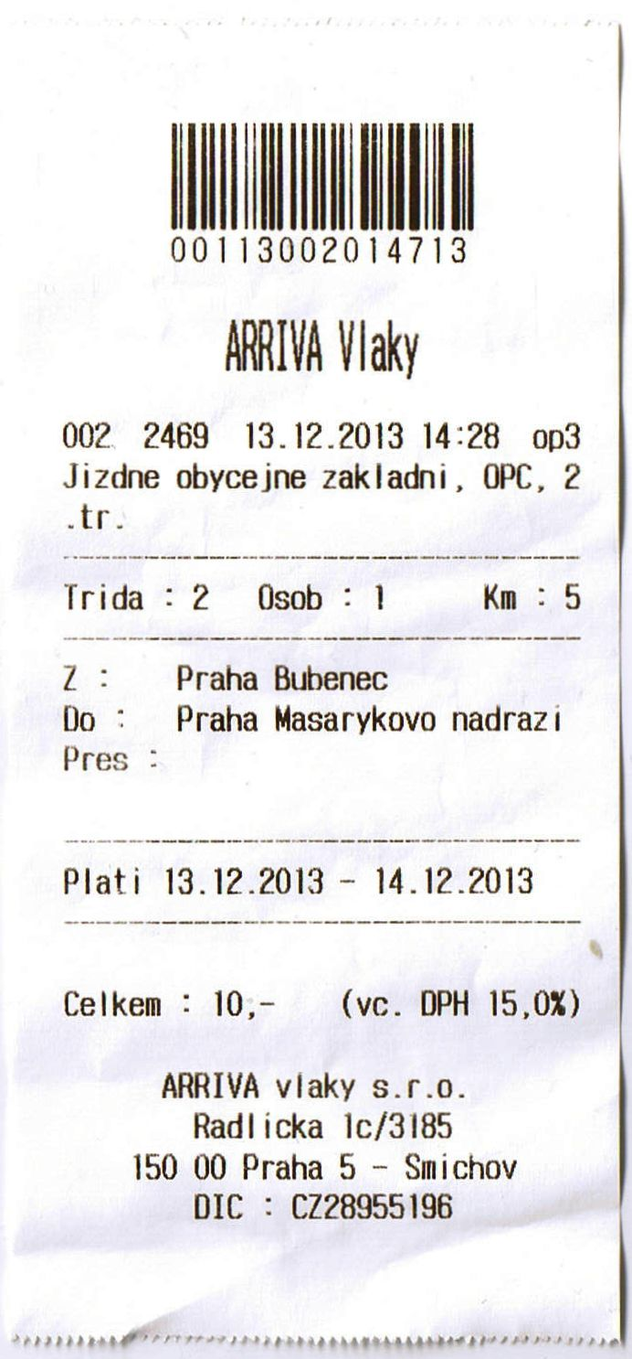 Rail ticket, Arriva vlaky.